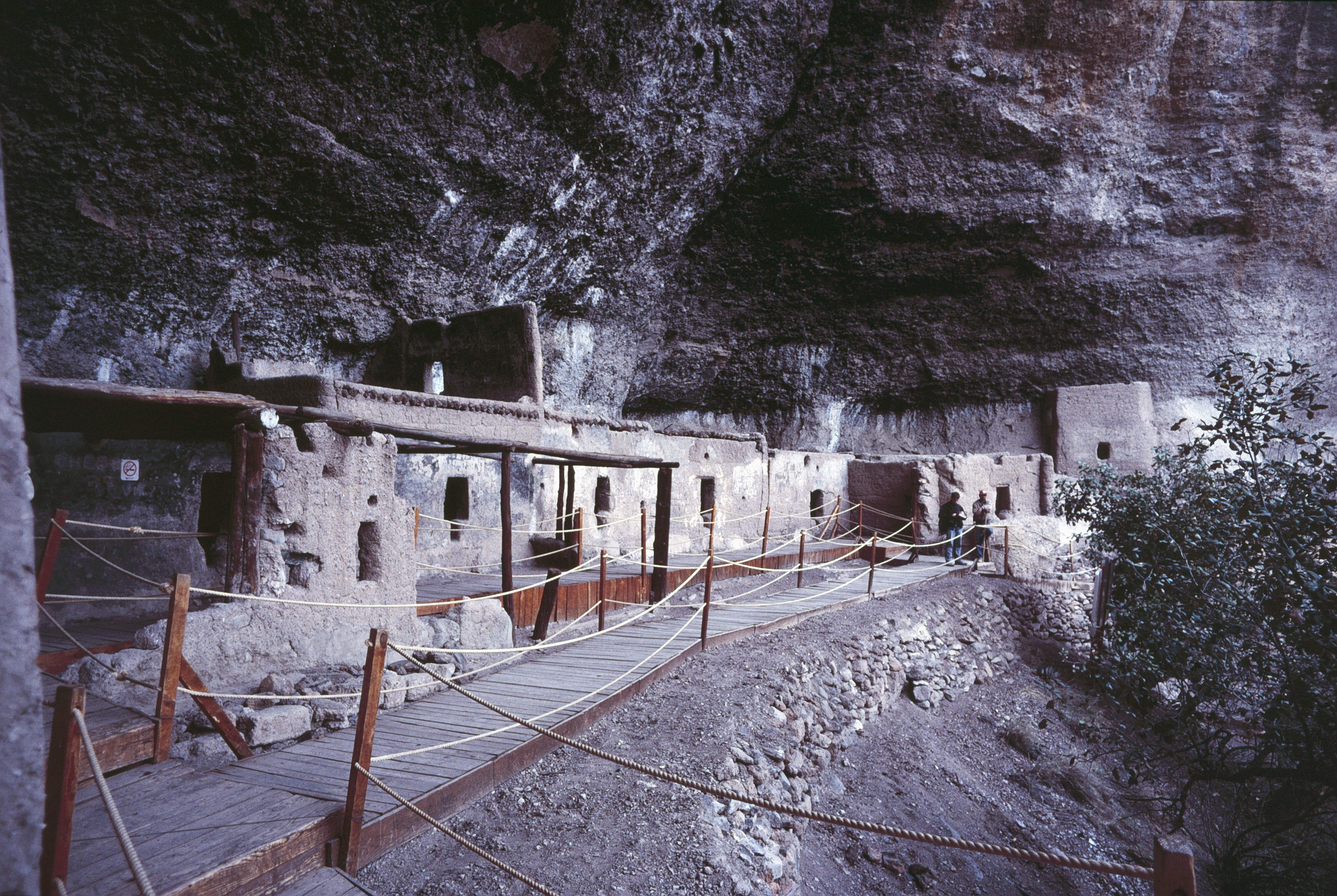 Cuarenta Casas, Chihuahua, Mexico: Cueva de las Ventanas